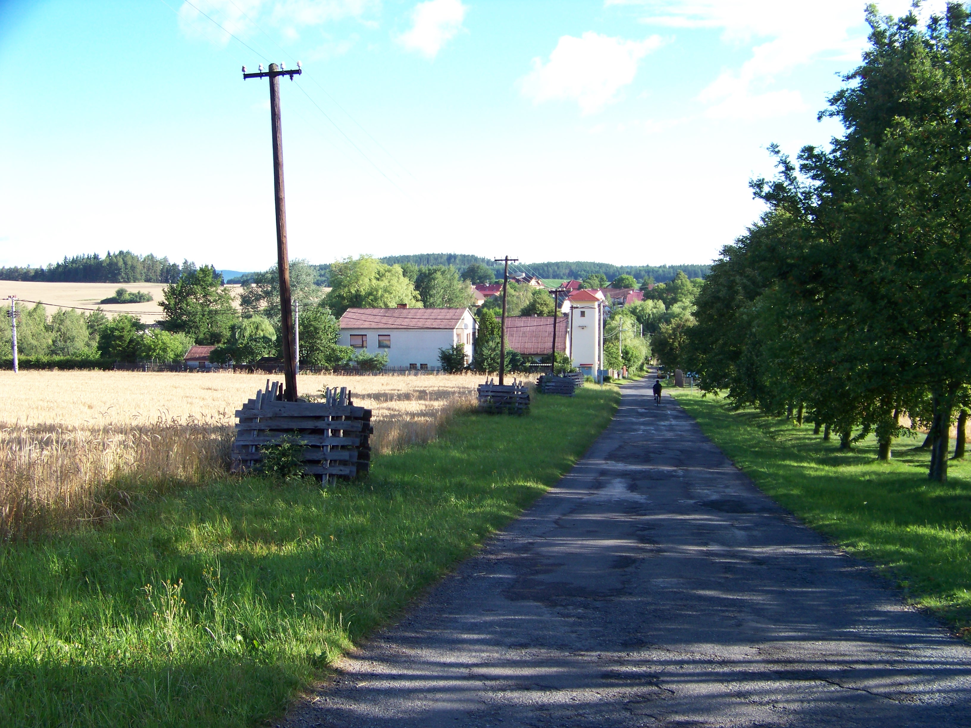 Milín-Konětopy, from Slivice, Příbram District, Central Bohemian Region, the Czech Republic. - OpenStreetMap(Info)